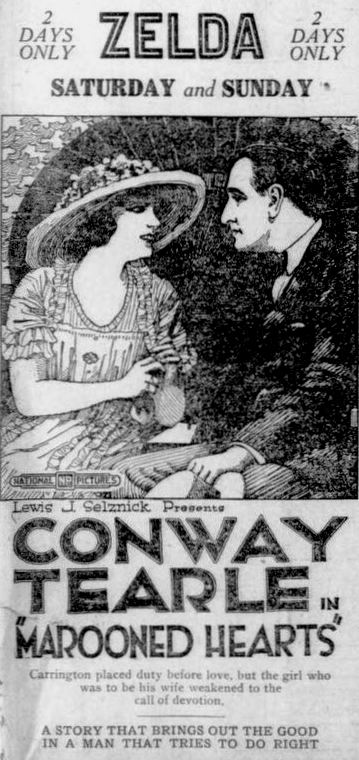 Newspaper advertisement for the American film Marooned Hearts (1920) with Conway Tearle, on page 1B of the July 1, 1921 Duluth Herald.